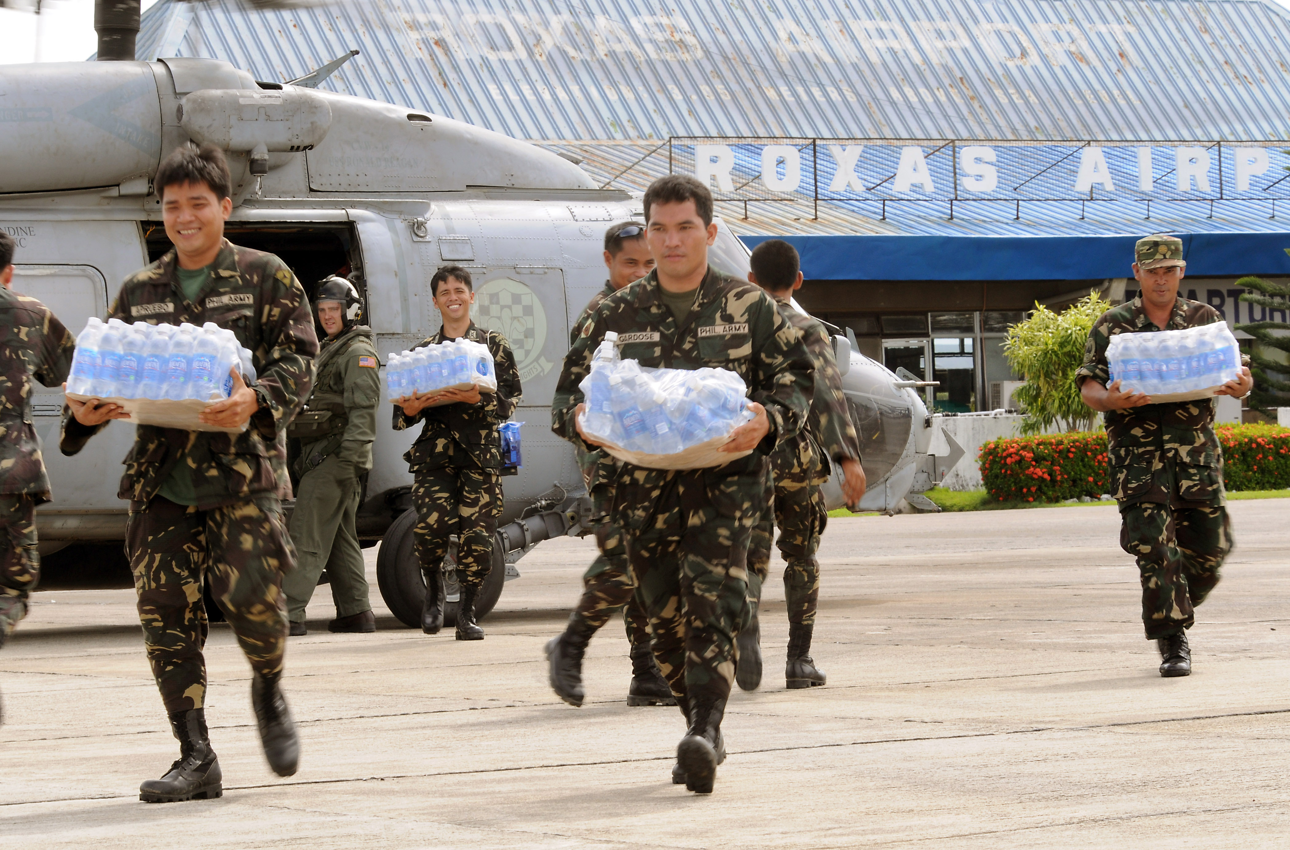 ROXAS, Philippines (June 26, 2008) Servicemen of the Philippine Army transport bottled water from an SH-60 helicopter assigned to Helicopter Anti-Submarine Squadron (HS) 4 at Roxas airport. The U.S. Navy and the Philippine Army and Air Force have been working side by side during disaster relief efforts in the wake of Typhoon Fengshen. At the request of the government of the Republic of the Philippines, the Nimitz-class aircraft carrier USS Ronald Reagan (CVN 76) is off the coast of Panay Island providing humanitarian assistance and disaster response. Ronald Reagan and other U.S. Navy ships are operating in the 7th Fleet area of responsibility to promote peace, cooperation and stability. U.S. Navy photo by Senior Chief Mass Communication Specialist Spike Call (Released)